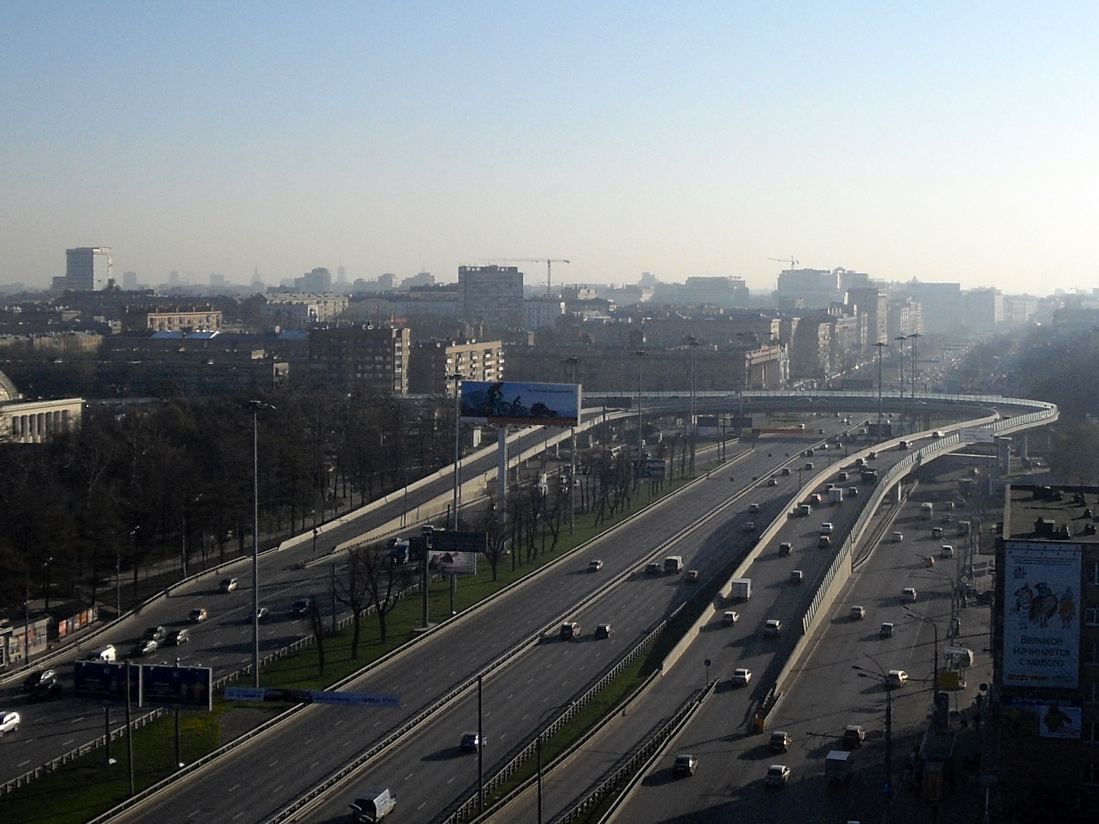 Leningradsky Prospekt in Moscow